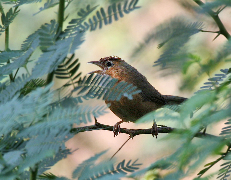 Tawny-bellied Babbler Dumetia hyperythra at Sindhrot in Vadodara District of Gujarat, India.